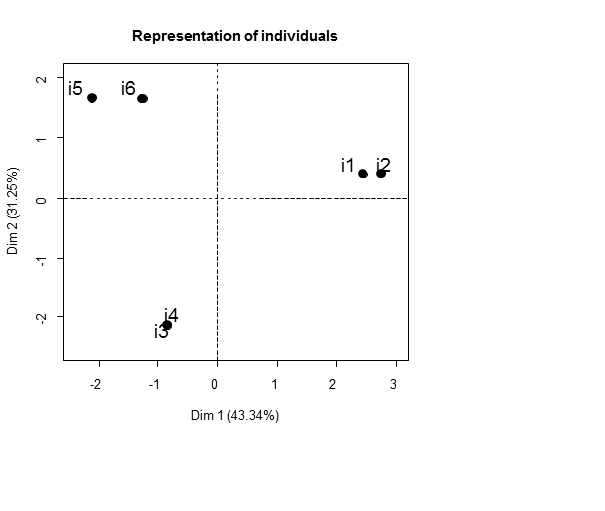 MFA. Test data. Representation of individuals.